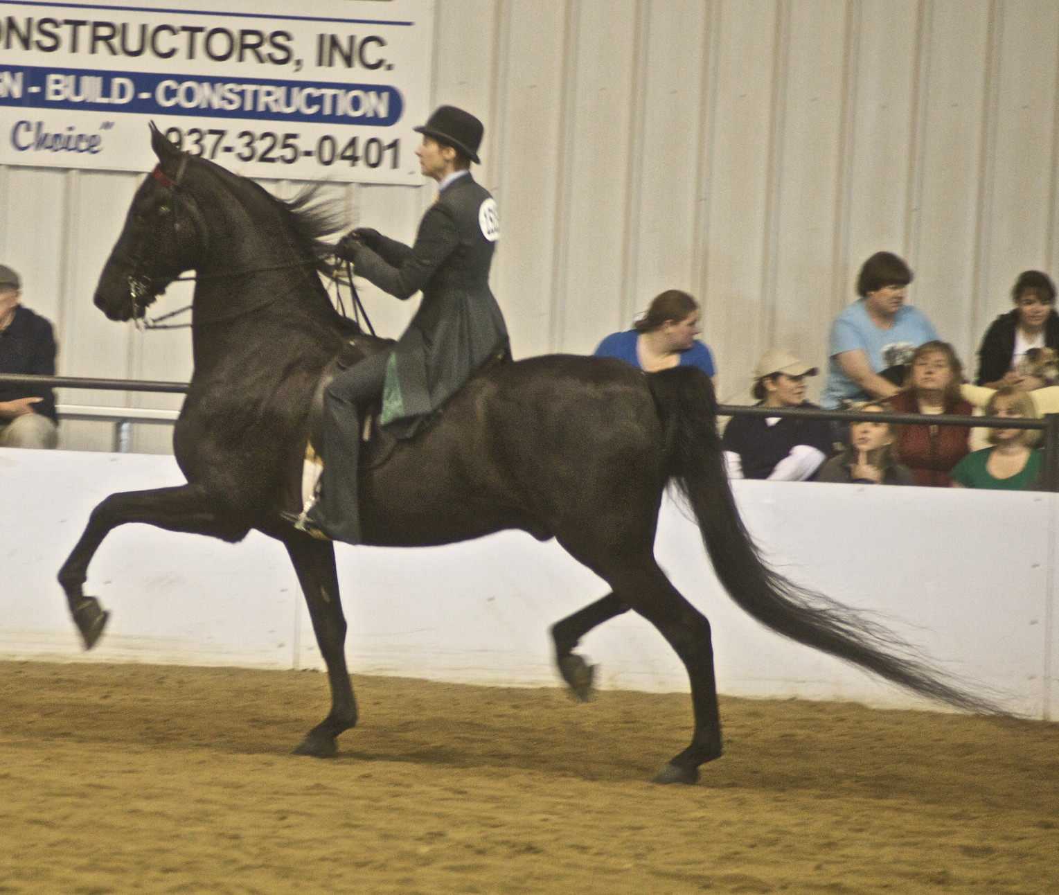 American Saddlebred